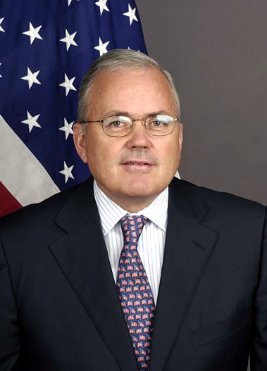 Craig Roberts Stapleton, U.S. Ambassador to France. Source: U.S. Embassy in Paris: Ambassador’s biography.